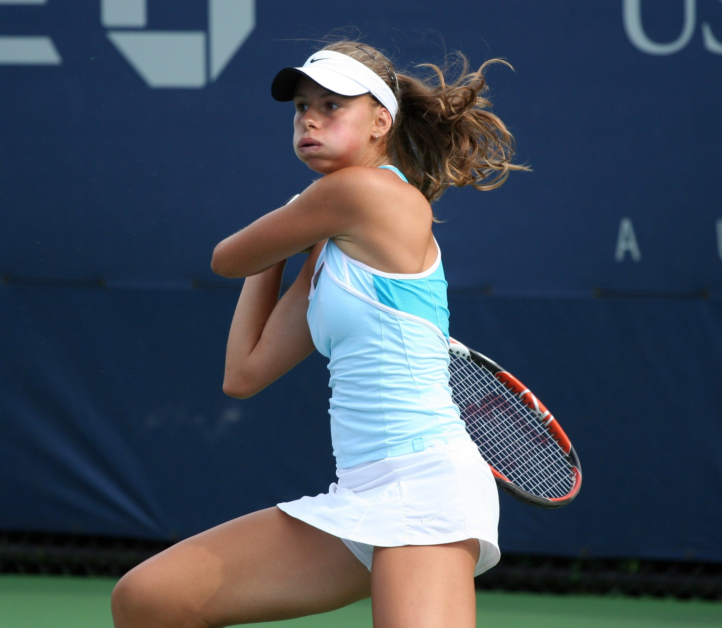 U.S. Open Juniors Monday, Sept. 7, 2009